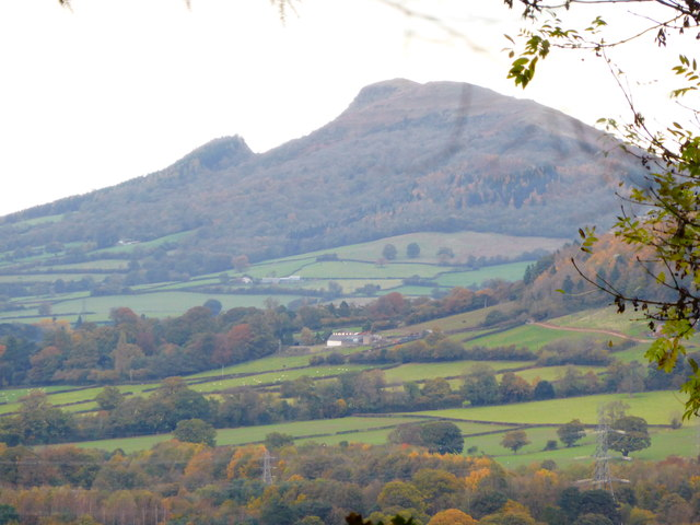 View of Ysgyryd Fawr from above Llanellen